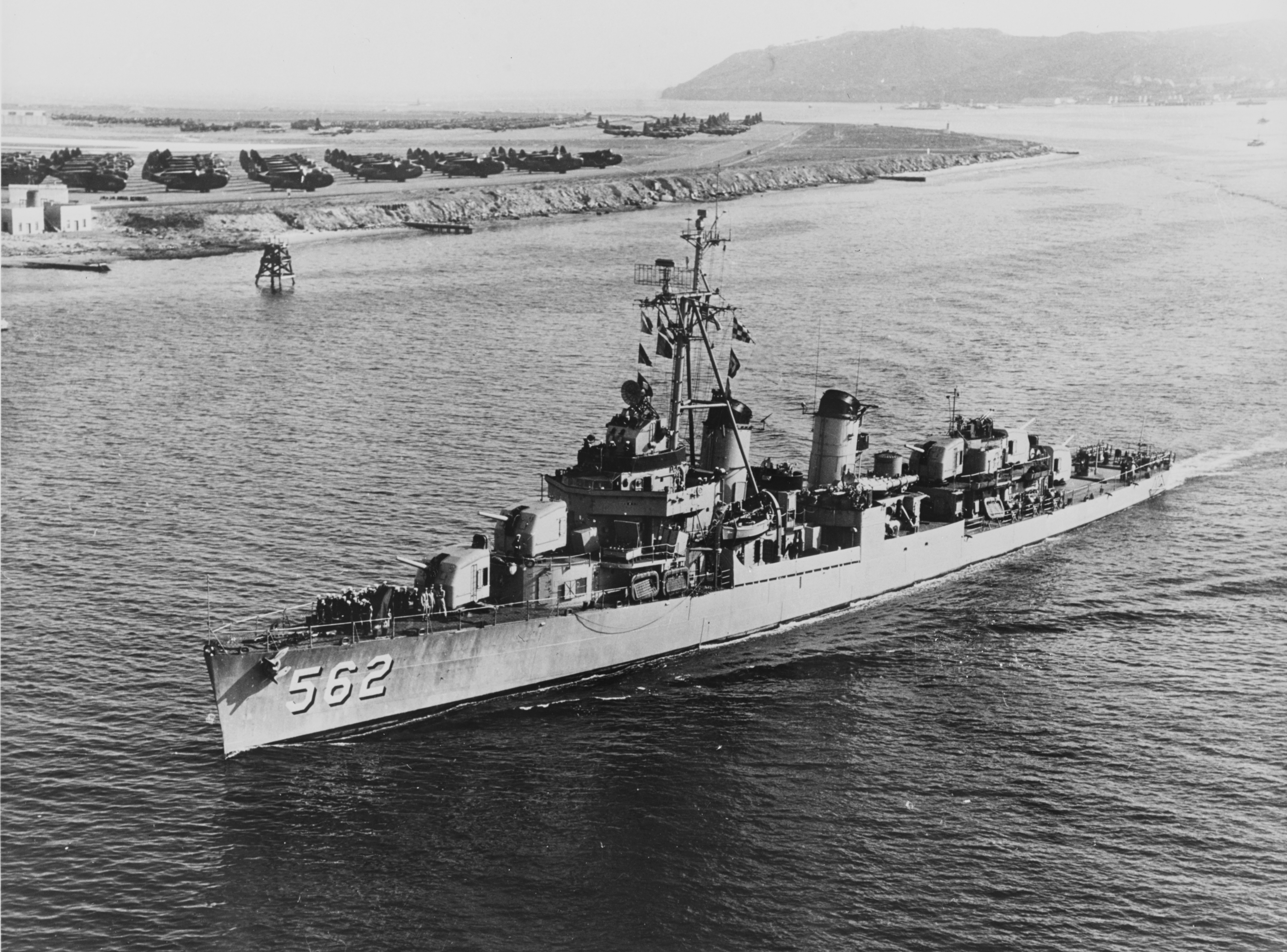 The U.S. Navy destroyer USS Robinson (DD-562) steaming into San Diego harbor, California (USA), circa mid-1953. Naval Air Station North Island is in the immediate background, with many Martin PBM Mariner and Consolidated PB4Y-2 Privateer patrol planes present.